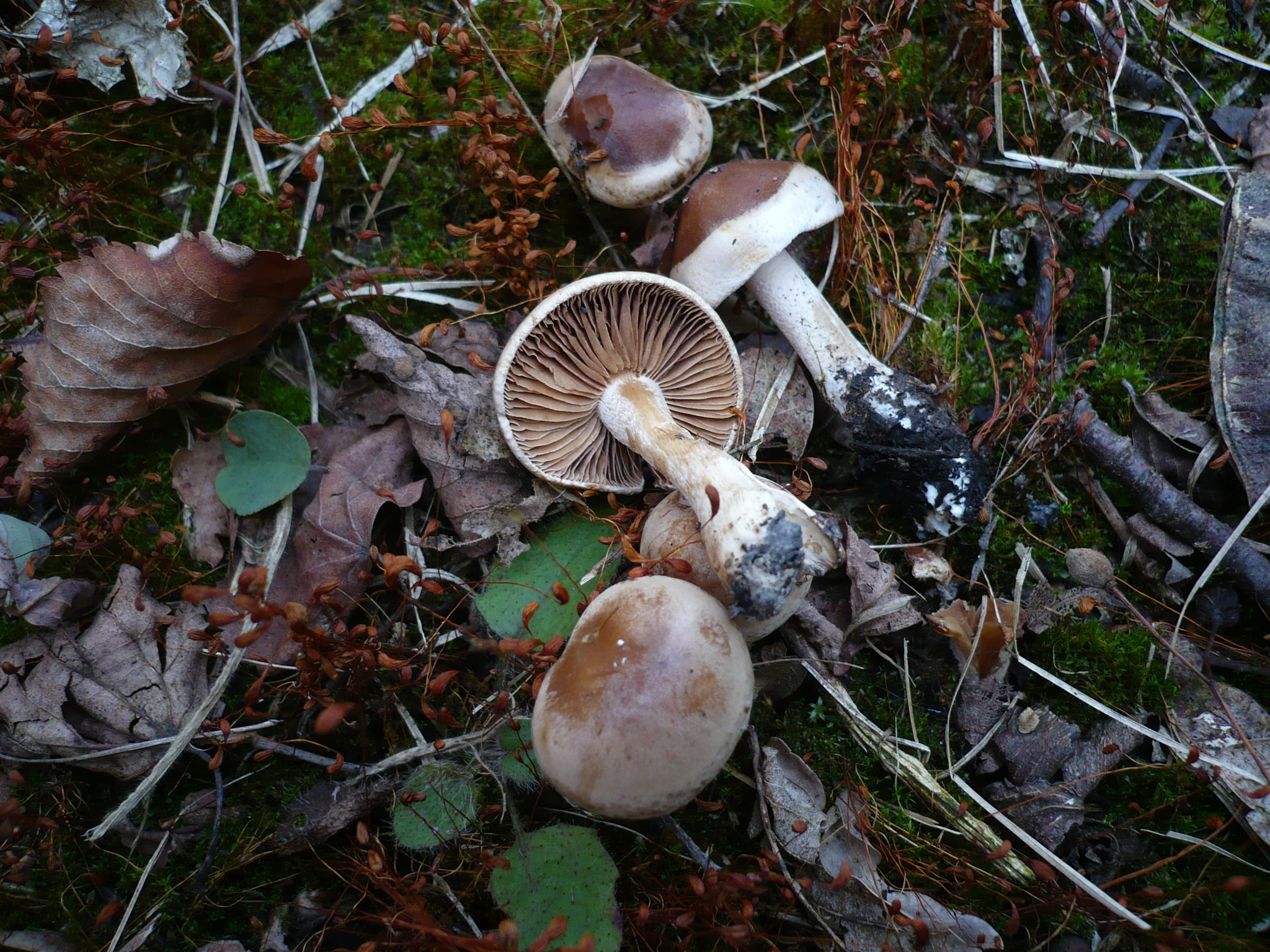 Fruit bodies of the agaric fungus Hebeloma anthracophilum Maire. Collection from Udoli, Nad Svicarni, Southern Bohemia, Czech Republic.